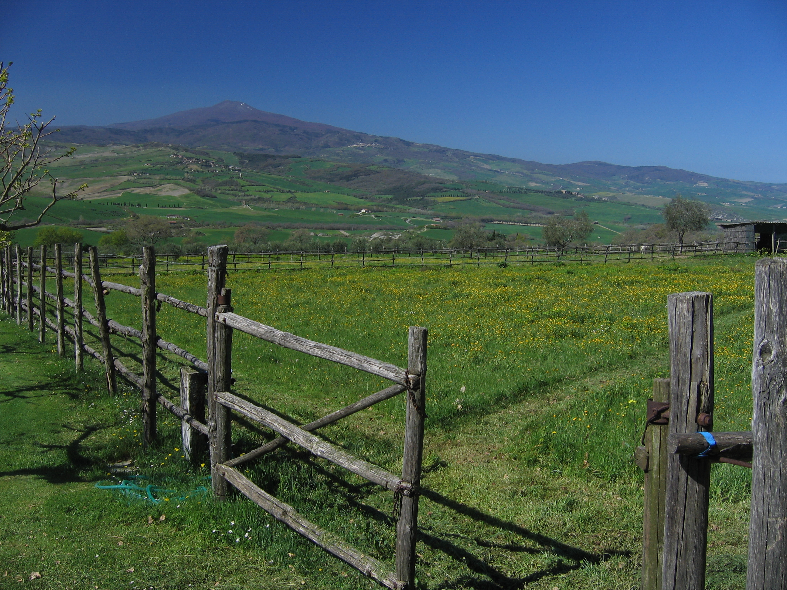 Mt. Amiata, as seen looking west from La Foce. Other images by this contributor - User:Sba2 Use this image as needed, but for uses other than personal, please credit as "Photo by Scott Williams".